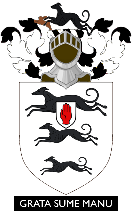 The armorial achievement of the Brisco baronets of Crofton Place